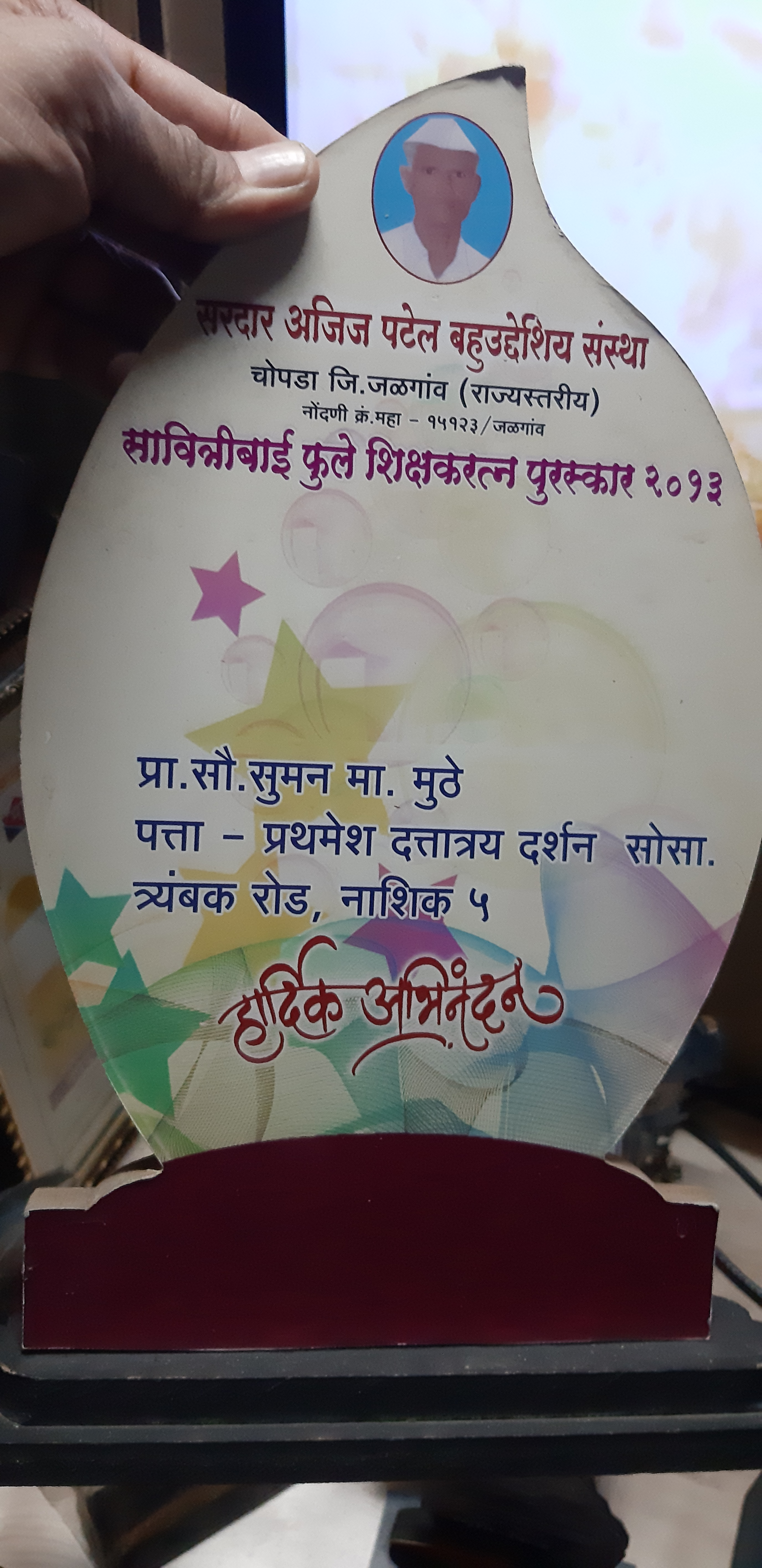 Shikshakratna Puraskar